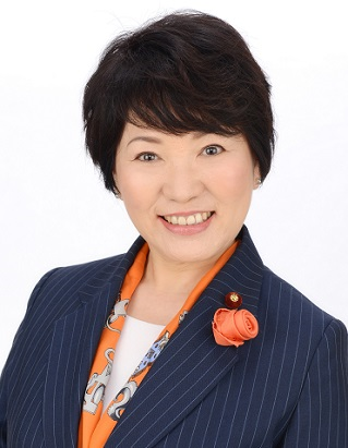 Abe Toshiko was inaugurated as State Minister for Foreign Affairs on October, 2018